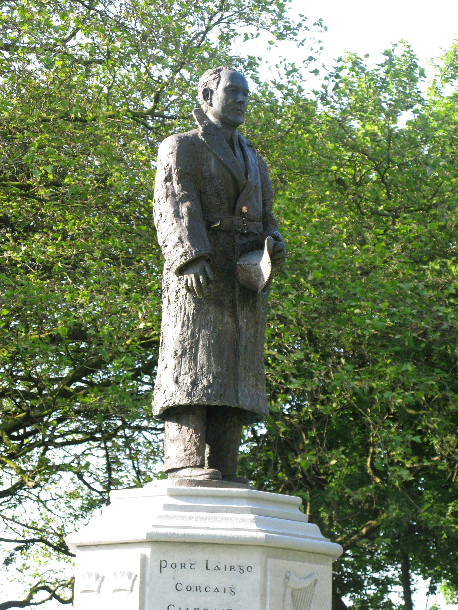 Replacement Bronze Statue of Sean Russell in Fairview Park, Dublin, Ireland.